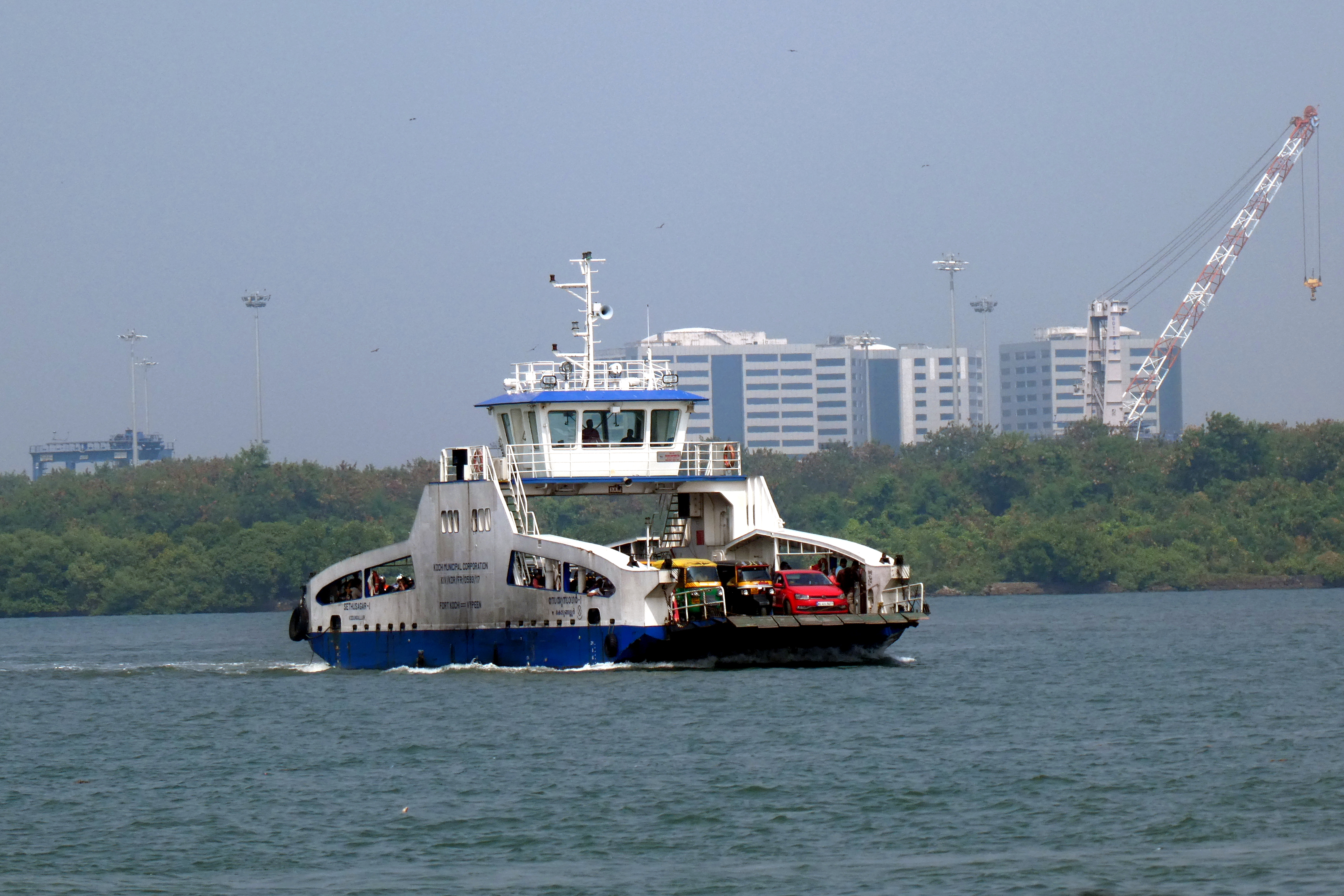 Ferry connecting Vypin with Fort Kochi as seen from Fort Kochi